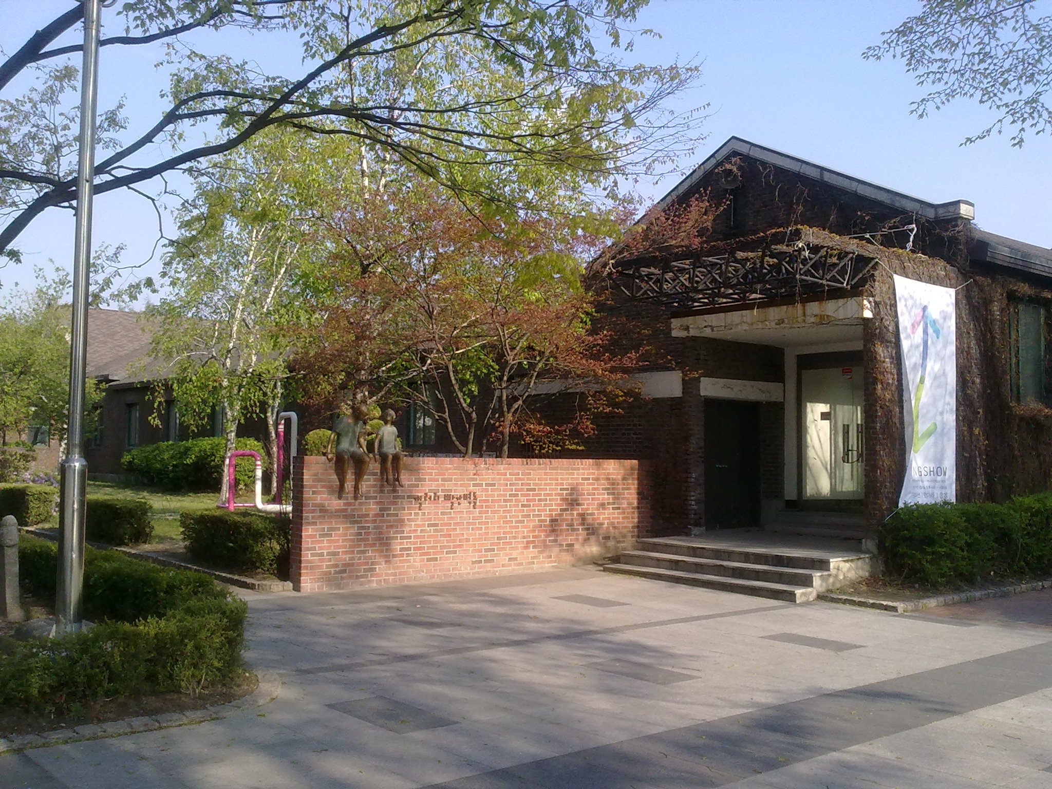 Gyeongnong-gwan, a part of University Museum, built before World War II.